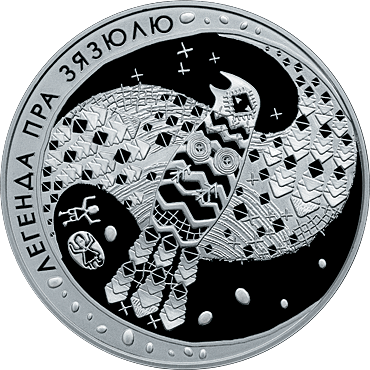 History and Culture of Belarus. Commemorative Coins "Legend rule zyazyulyu"("Legend of the Cuckoo)